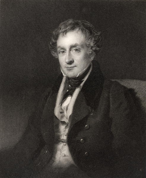 William Beach Lawrence, engraved by J. Cochran after a portrait by Henry Wyatt, from 'The National Portrait Gallery, Volume II', published c.1820